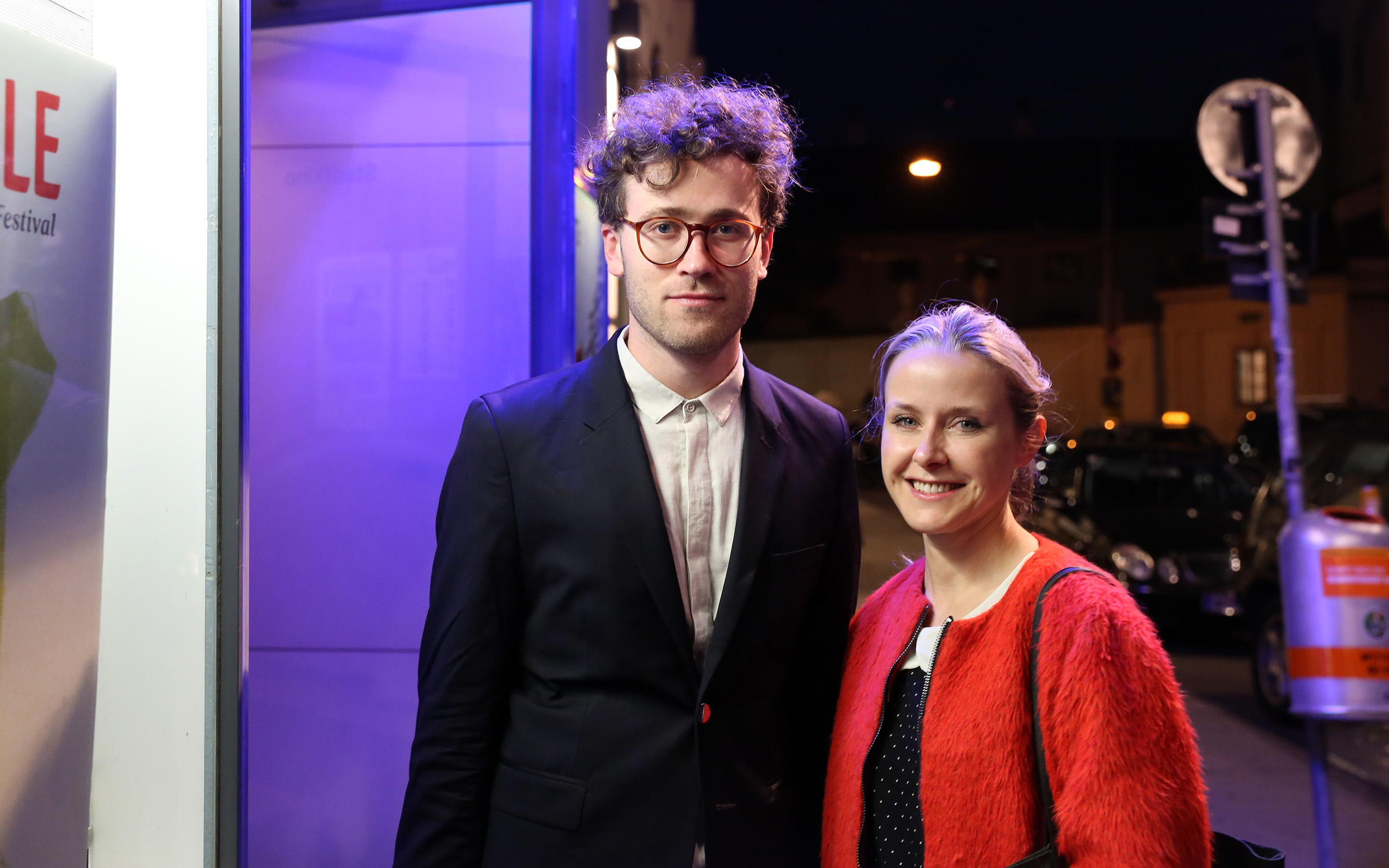 Vienna International Film Festival 2013: Katja Weilandt and Julian Radlmaier at Kino am Schwarzenbergplatz, the former Stadtkino (Vienna, Austria).